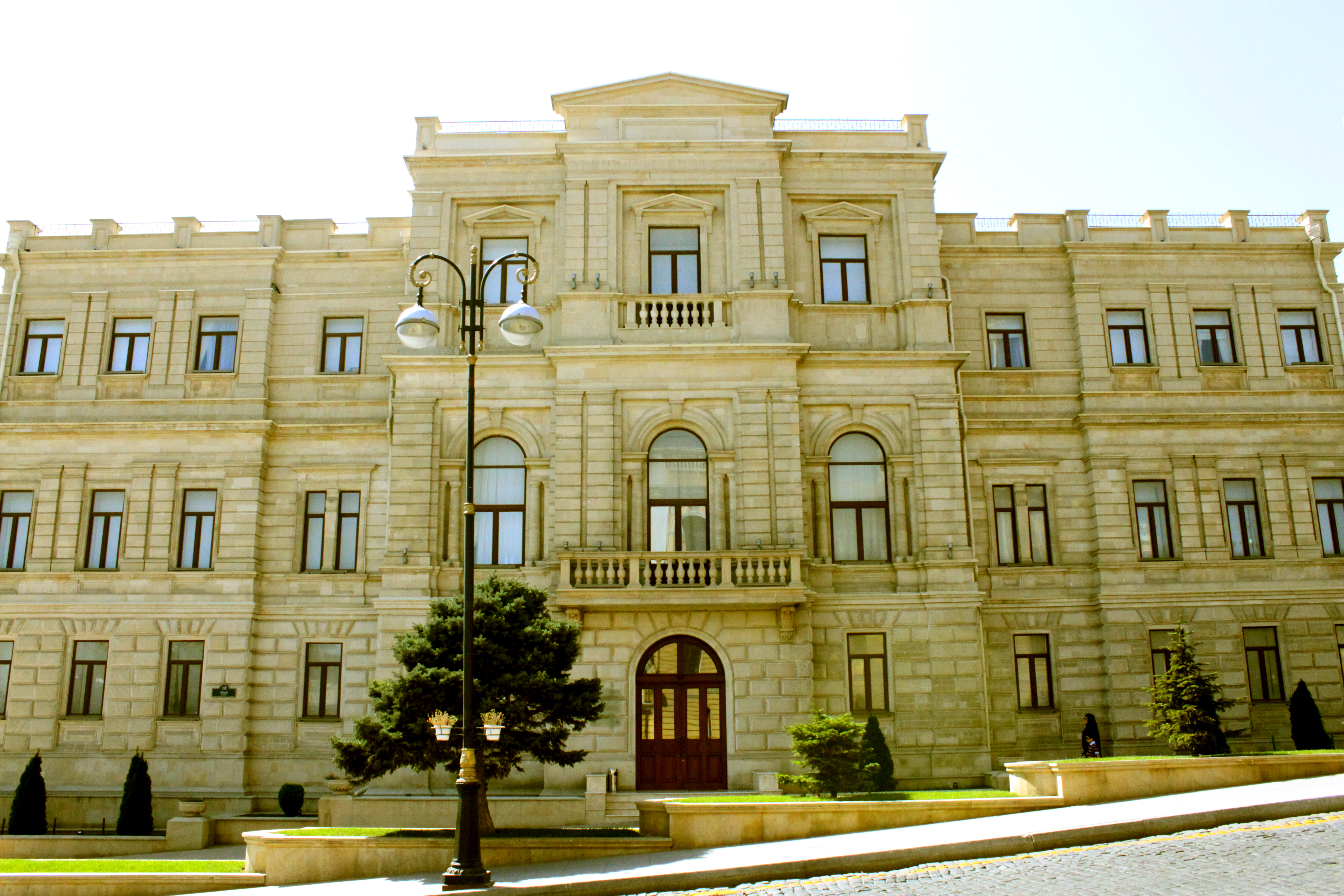 National Art Museum of Azerbaijan second building, Mariinsky Gmnyasium